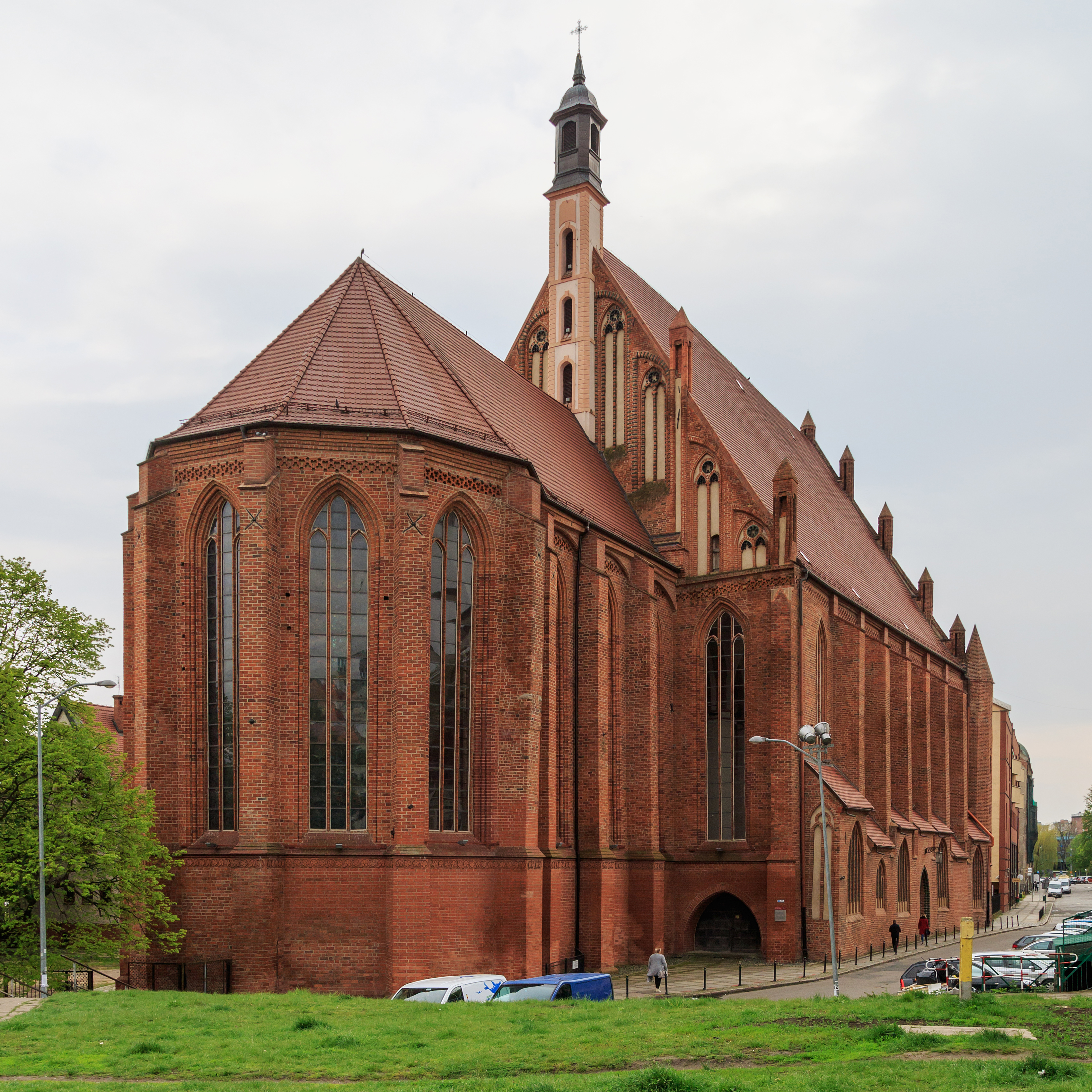 St. John the Evangelist Church in Szczecin (Poland)